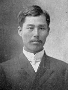 Tamura, Torazo(1873-1943)